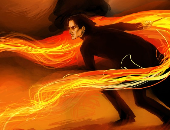 Snape (facing McGonagall) in Harry Potter and the Deathly Hallows.